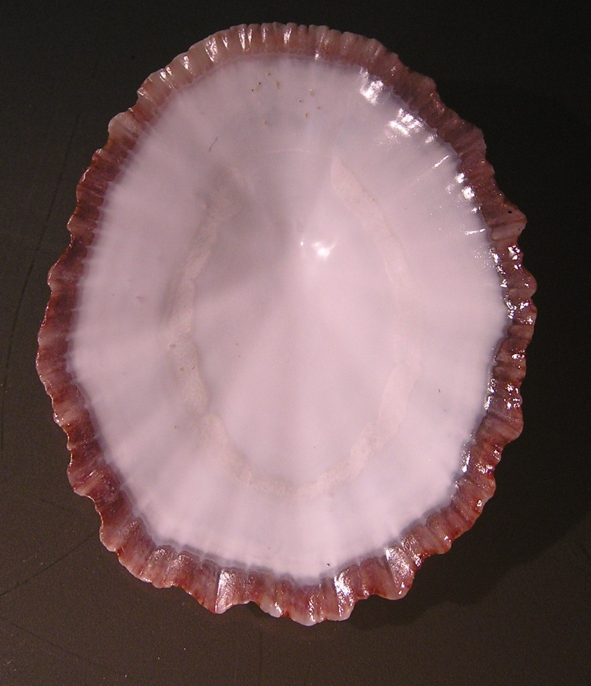 Scutellastra tabularis (Krauss, 1848) ; a limpet from the family Patellidae; South Africa